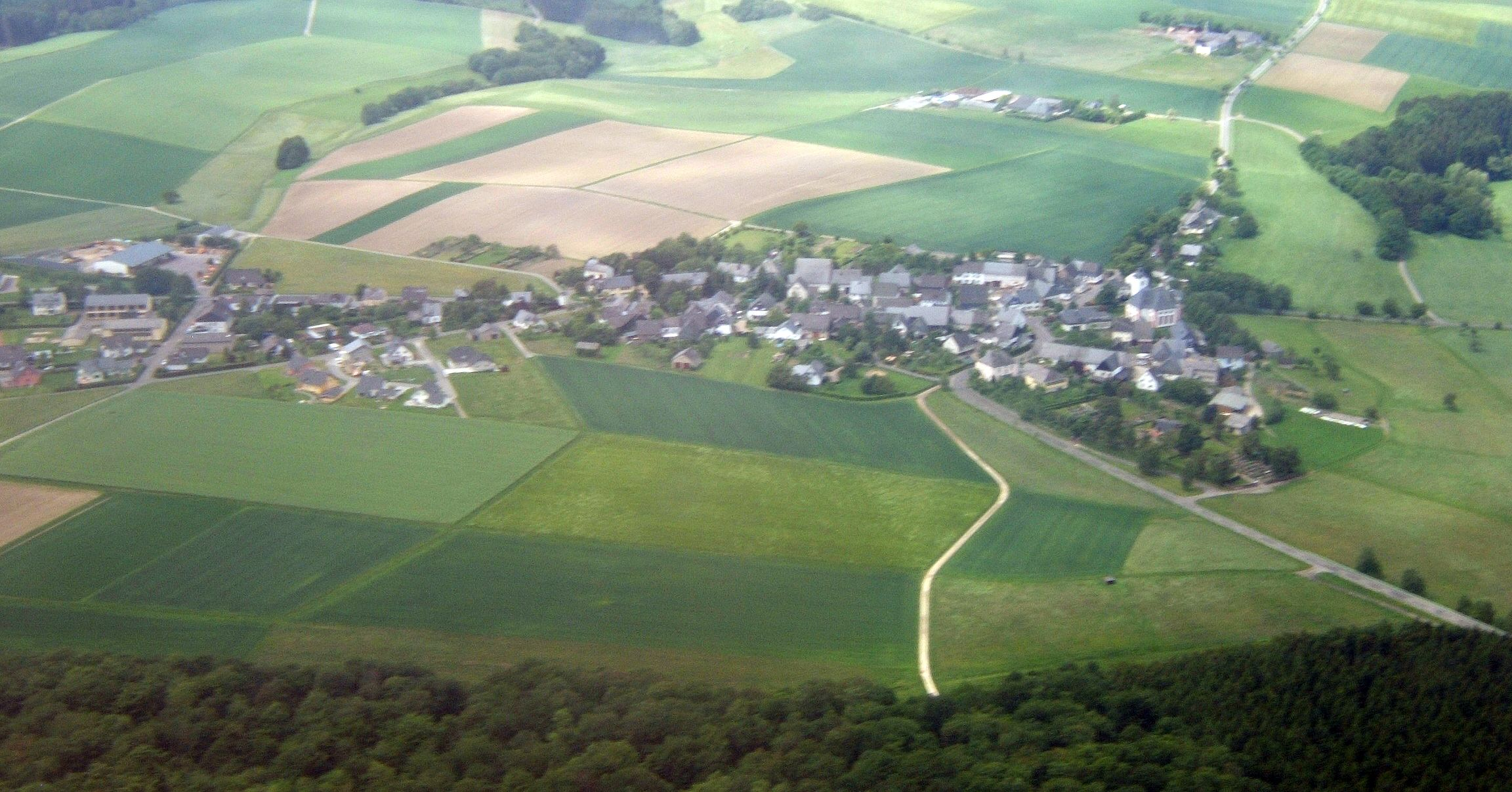 Kleinich, Bernkastel-Wittlich, Rhineland-Palatinate, Germany; picture taken from a plane landing at Frankfurt Hahn airport.